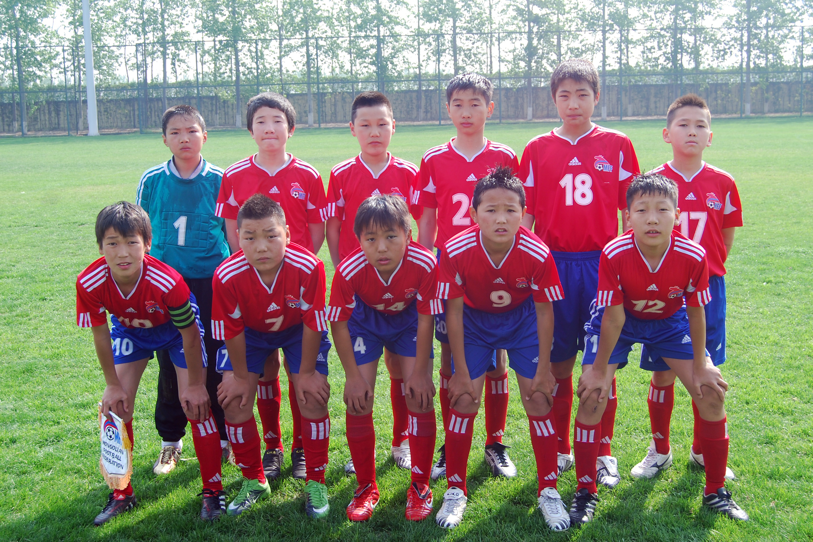 2011.04.28. Б.Түвшинтөгс, Ө.Төрбилэгт нар Монгол Улсын 13 хүртэлх насны шигшээ багийн бүрэлдэхүүнд багтаж, АХБХ-ны Фестивальд оролцов.